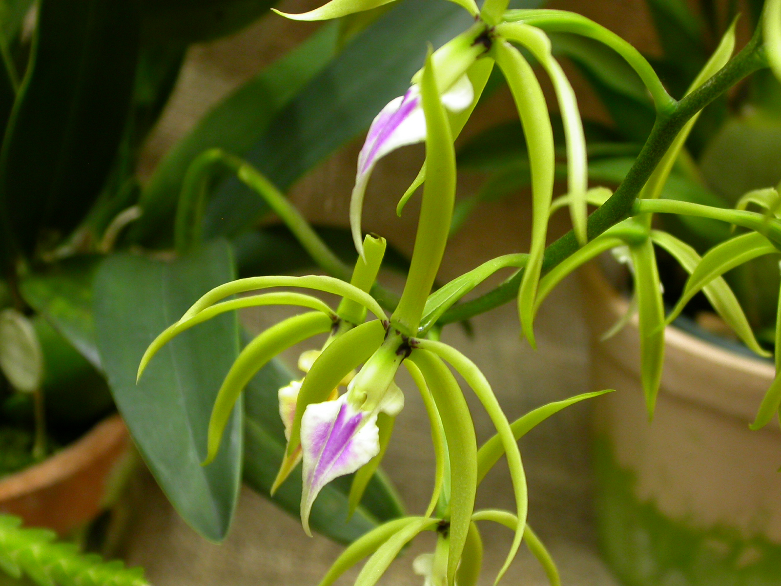 Panarica ionocentra